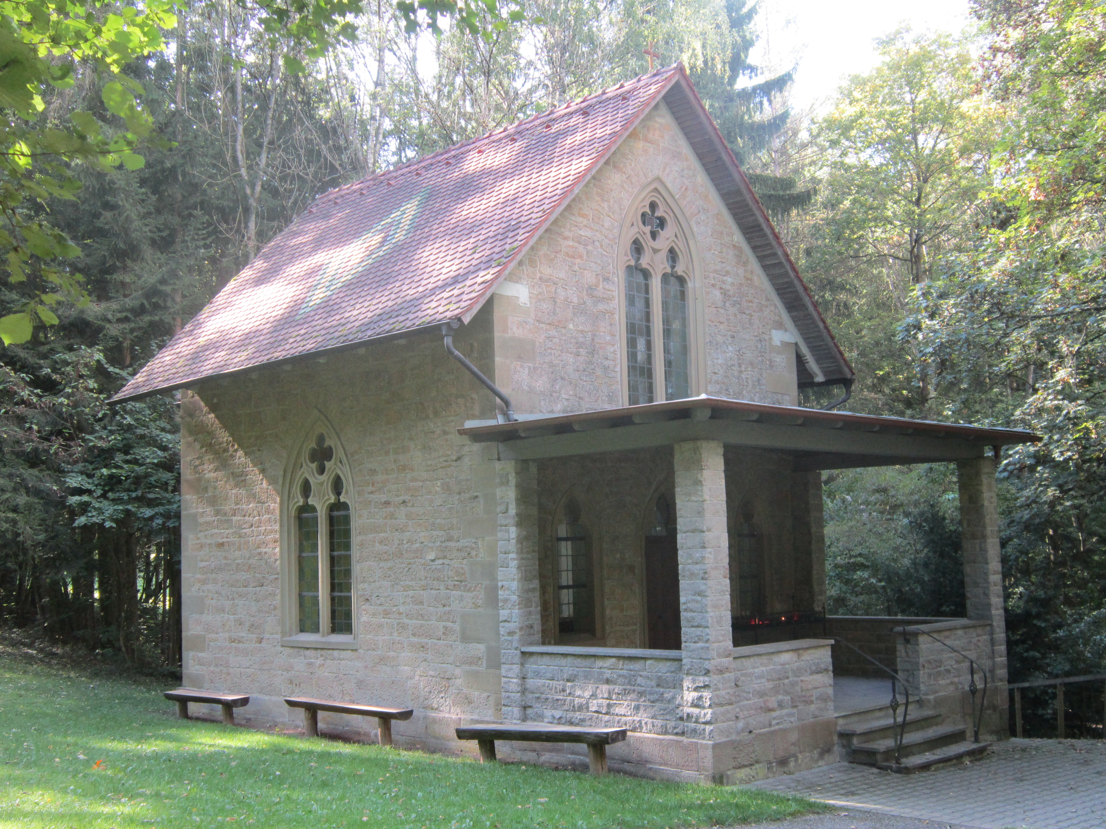 "Terzenbrunn" Chapel in Arnshausen, a quarter of the German spa town of Bad Kissingen in Lower Franconia (Bavaria).